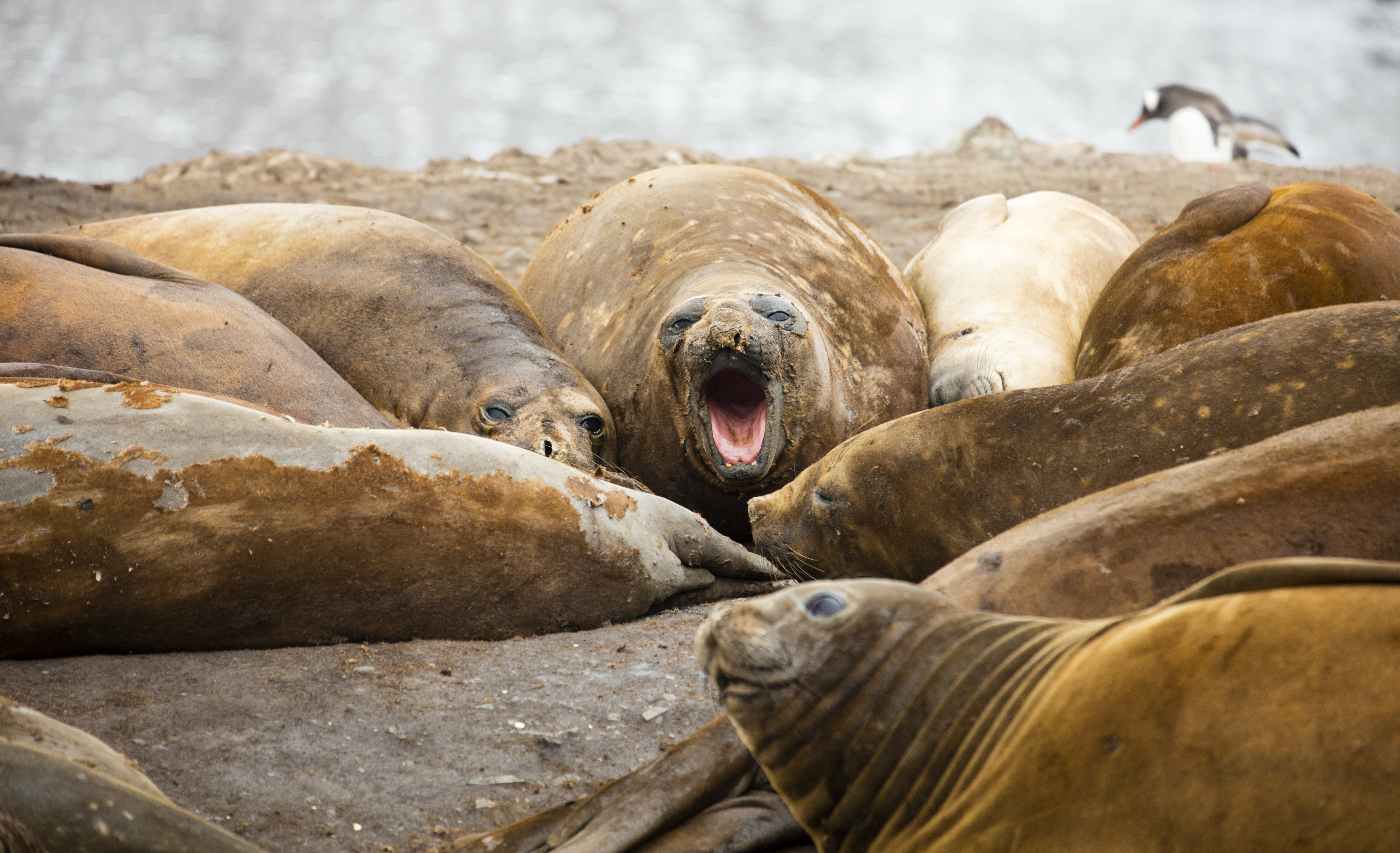 Southern elephant seal (Mirounga leonina), Hannah Point, Livingston Island, South Shetland Islands